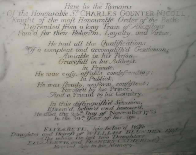 Explanatory inscription below memorial at St Peter's, Racton Namely Sir Charles Gounter Nicoll